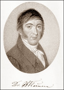 Johann Friedrich Naumann (1780-1857)